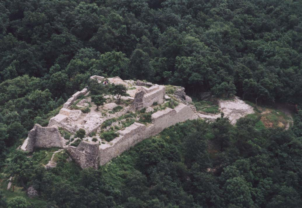 Castle - Drégely - Hungary - Europe